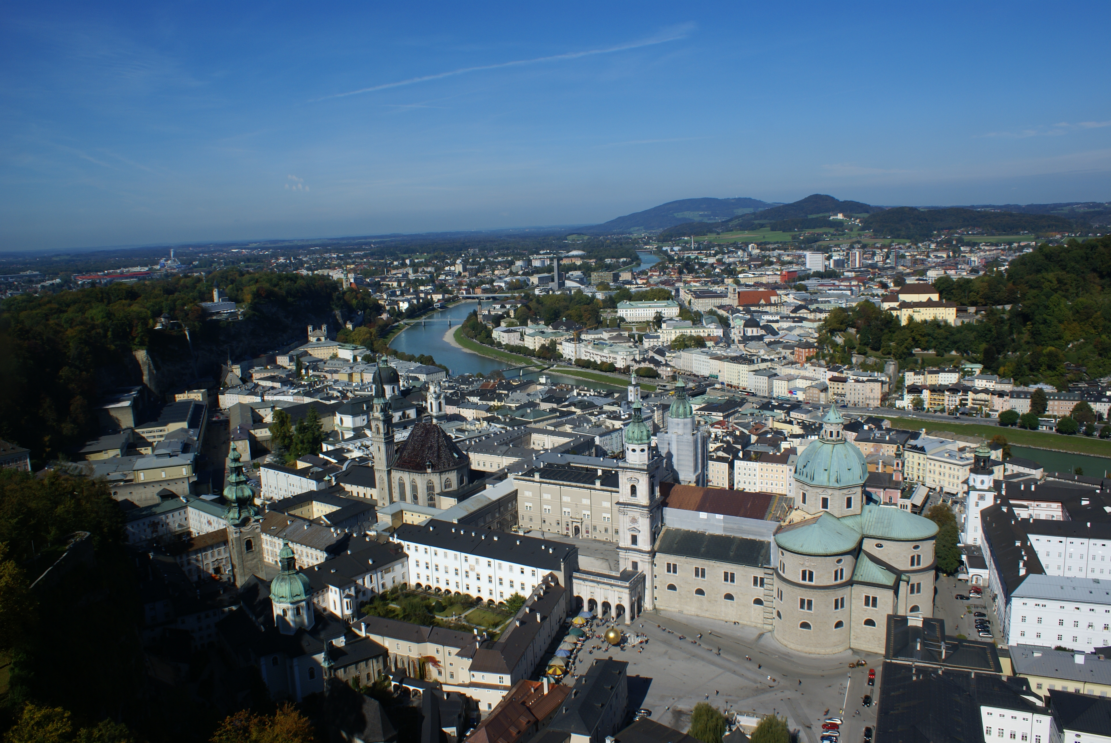 View from Hohensalzburg Castle to the north